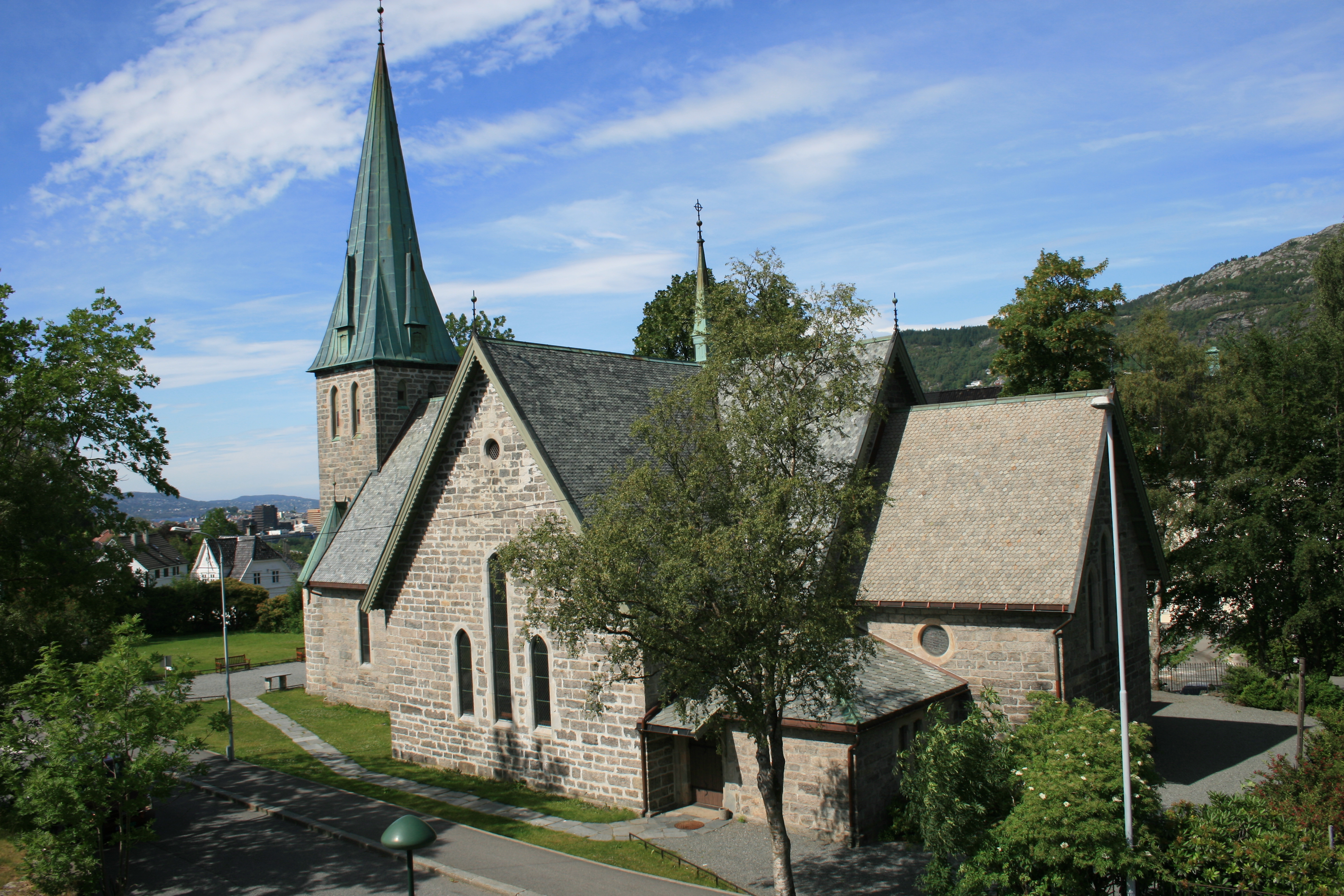 Årstad church in Bergen, Norway, July 2009